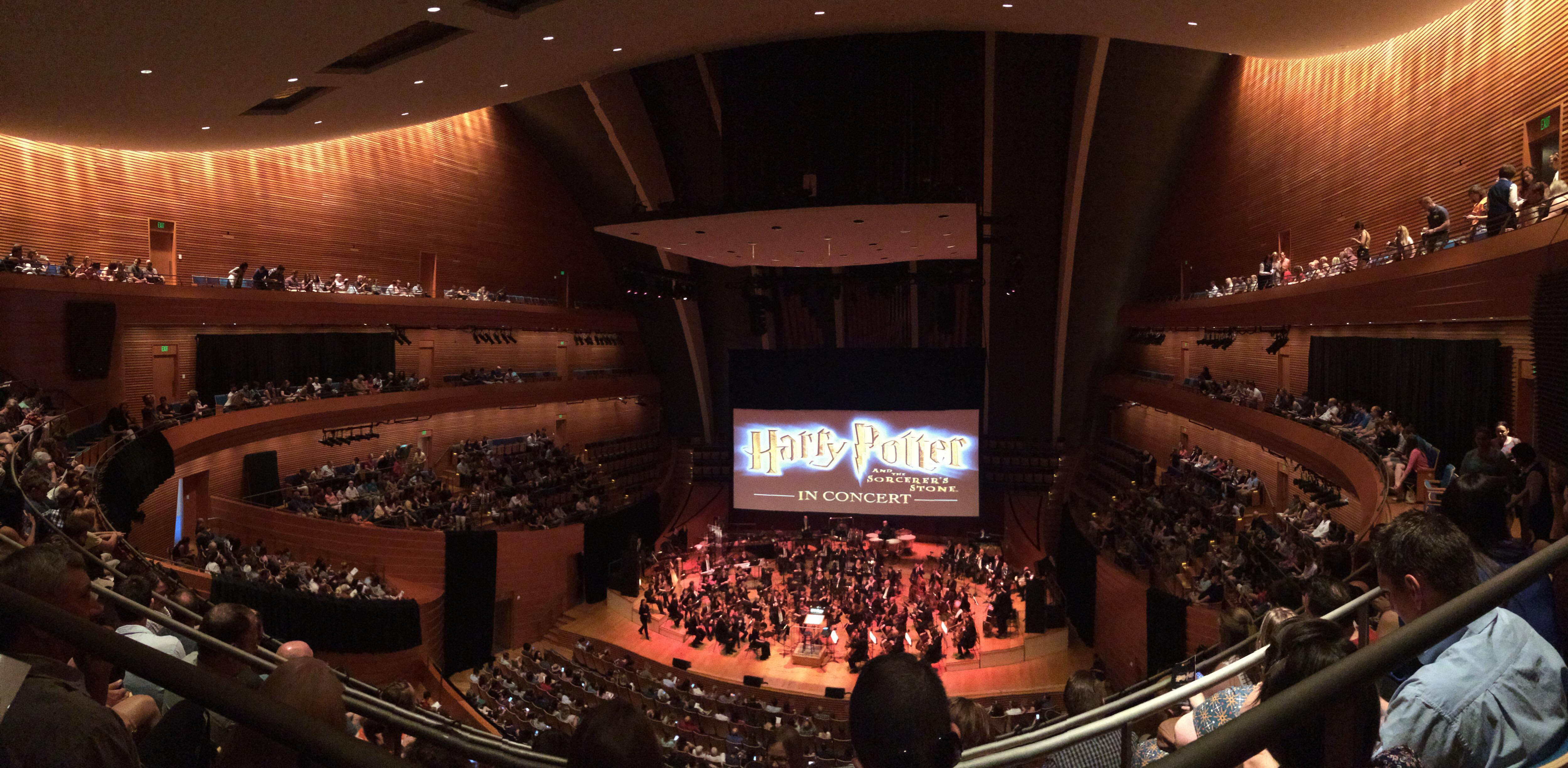 The KC Symphony performs live with Harry Potter and the Sorcerer's Stone